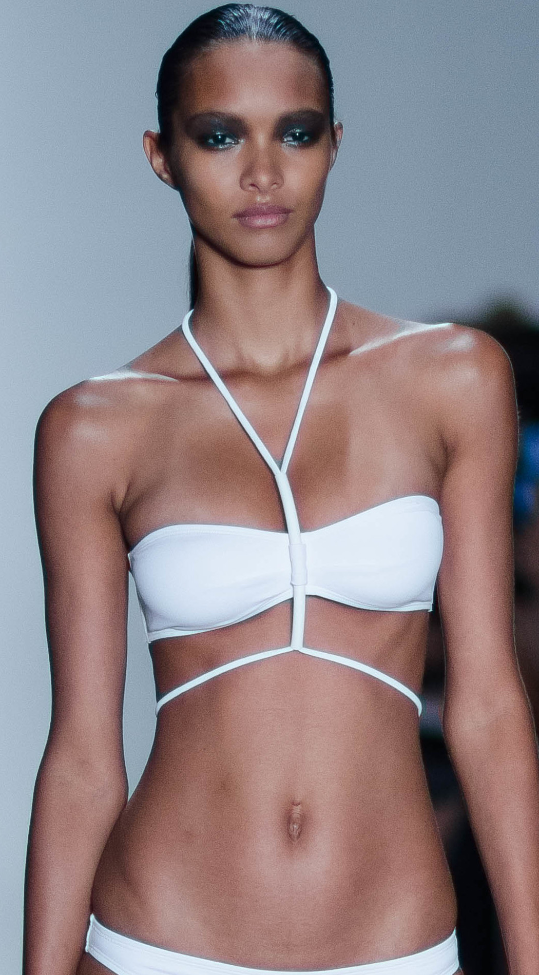 Lais Ribeiro walking for Cushnie et Ochs.